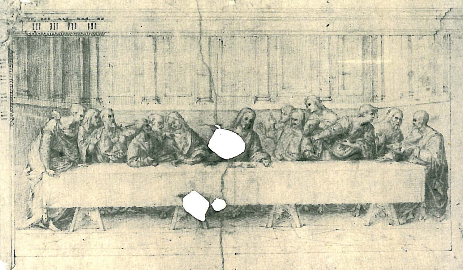 sketch for Leonardo da Vinci's Last supper